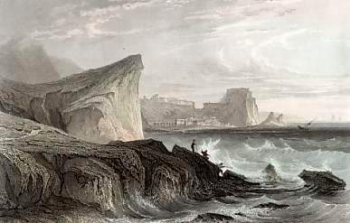 An 1840 steel engraving of the Strait of Messina by A.H.Payne